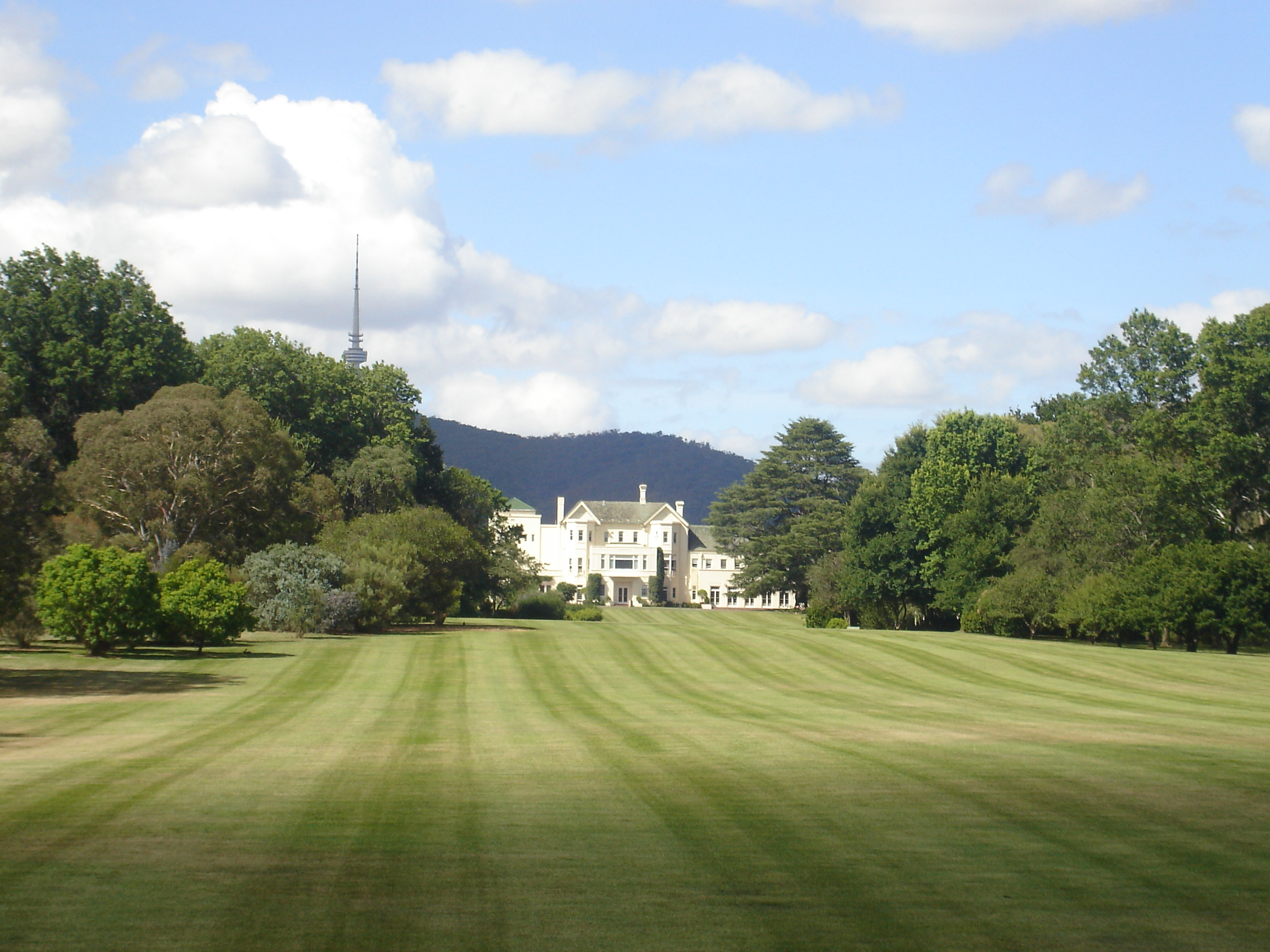 Government House at Yarralumla, Canberra